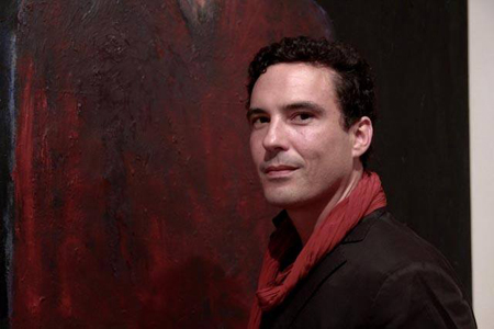 A picture of the artist Rodolfo Villaplana in front of one of his paintings